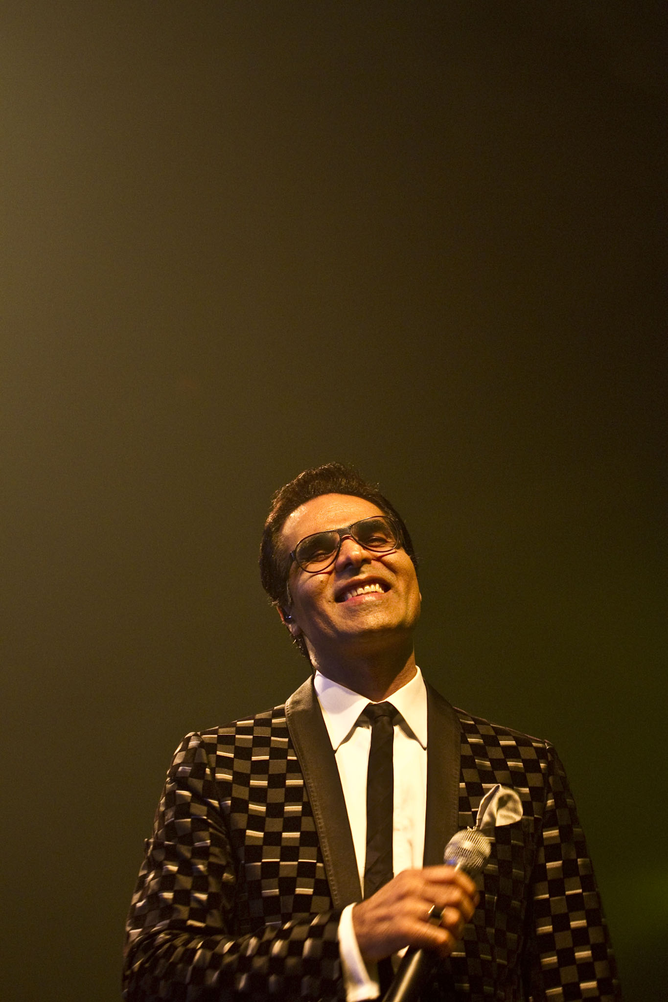 Omid Kuala Lumpur Malaysia concert photos